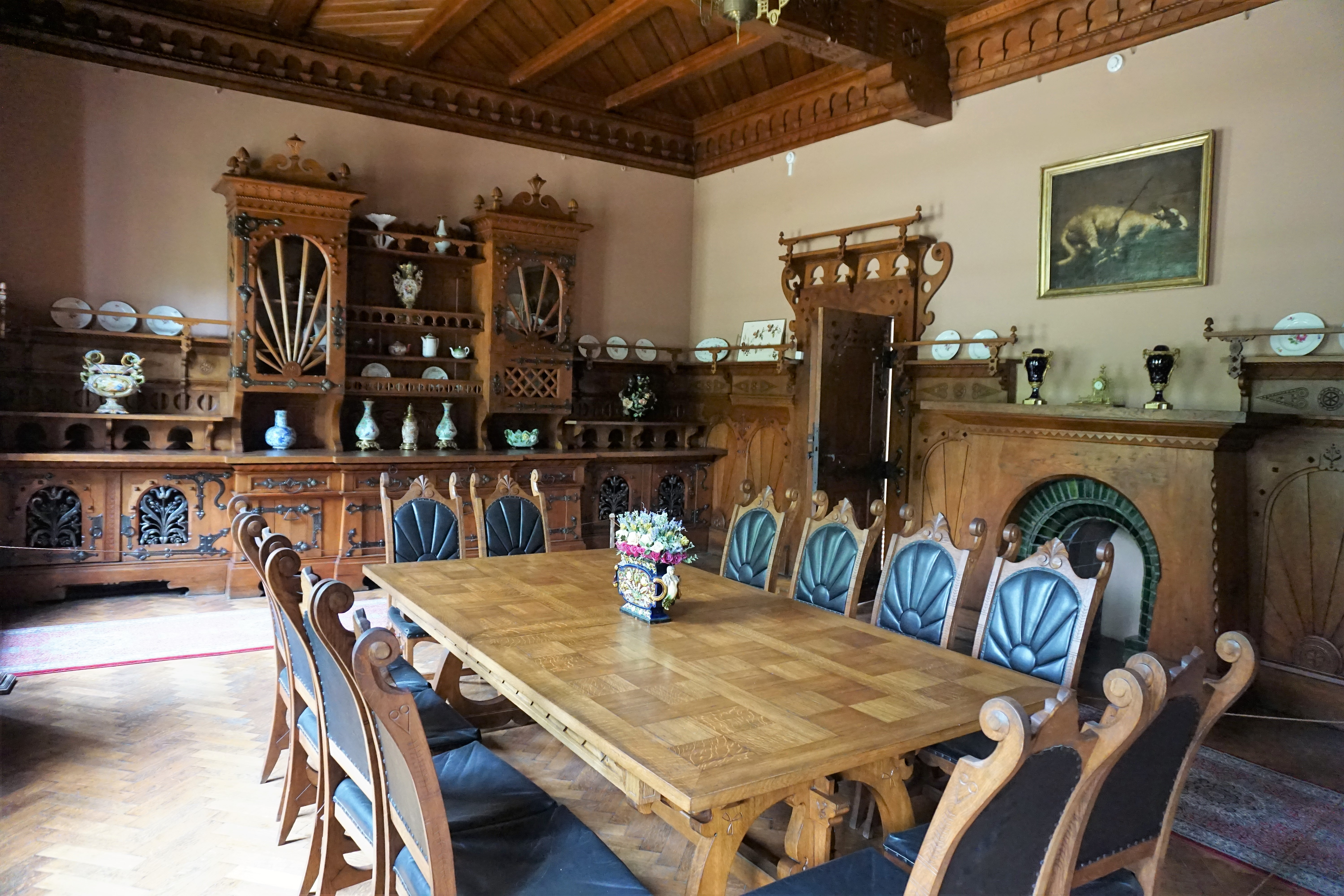 Dining room in the Rokiškis manor (now Rokiškis Regional Museum)